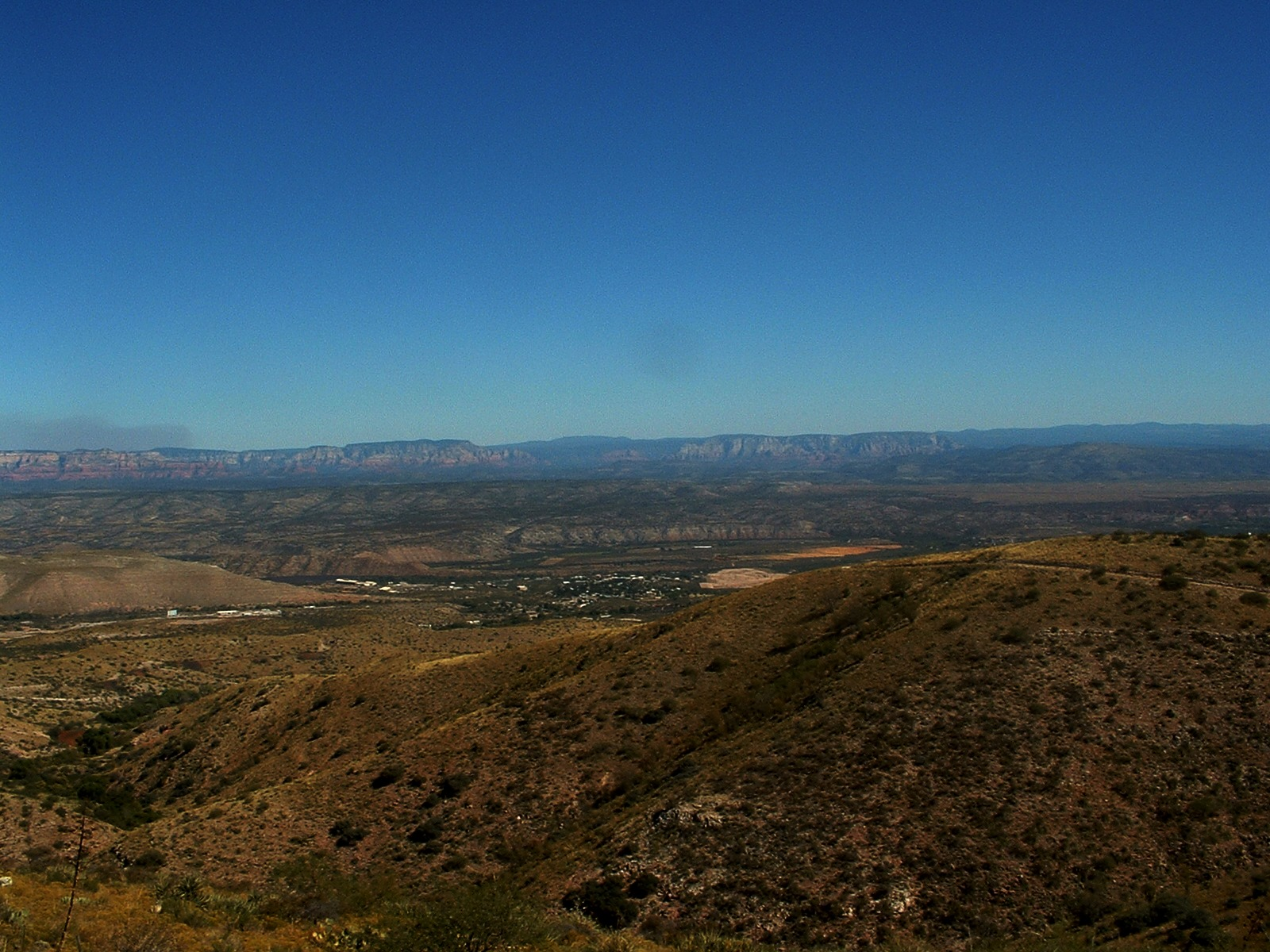 The Verde Valley From the Old Phelps-Dodge Headquarters, 2004